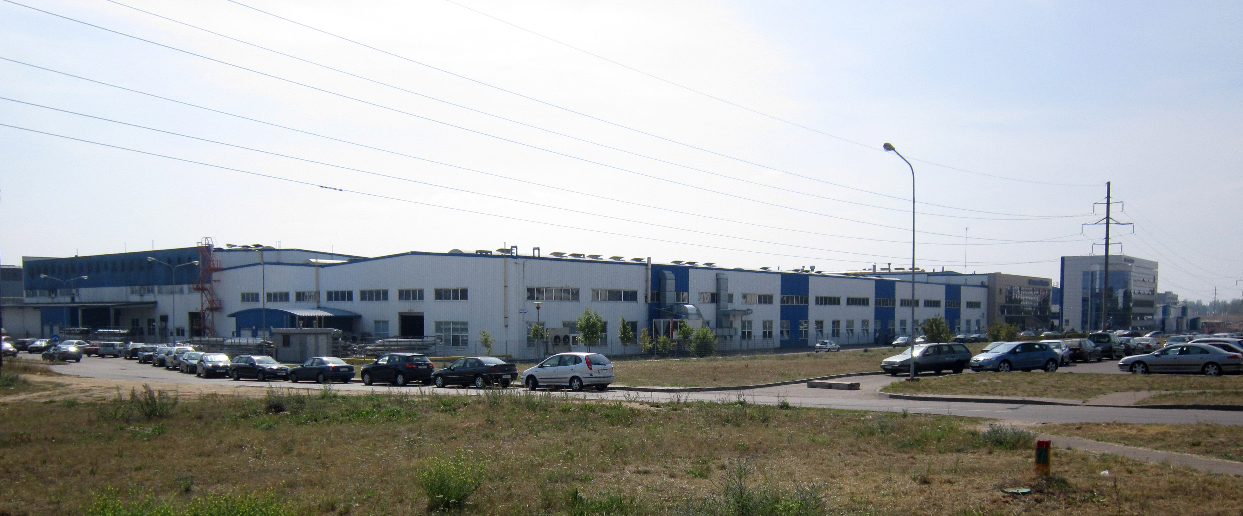 Sialickaha street in Minsk, Belarus